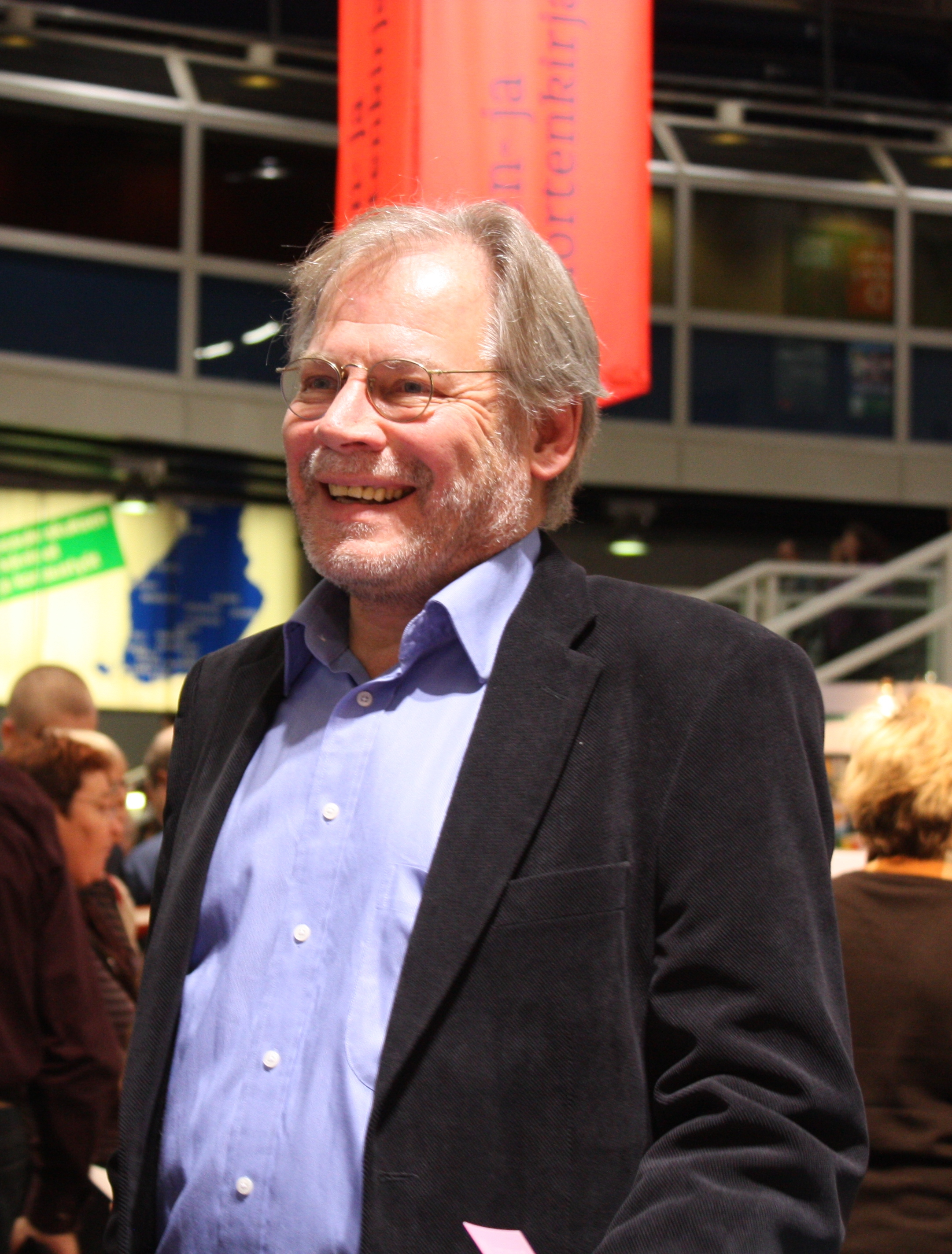 Finnish film director and writer Lauri Törhönen at Helsinki Book Fair 2009